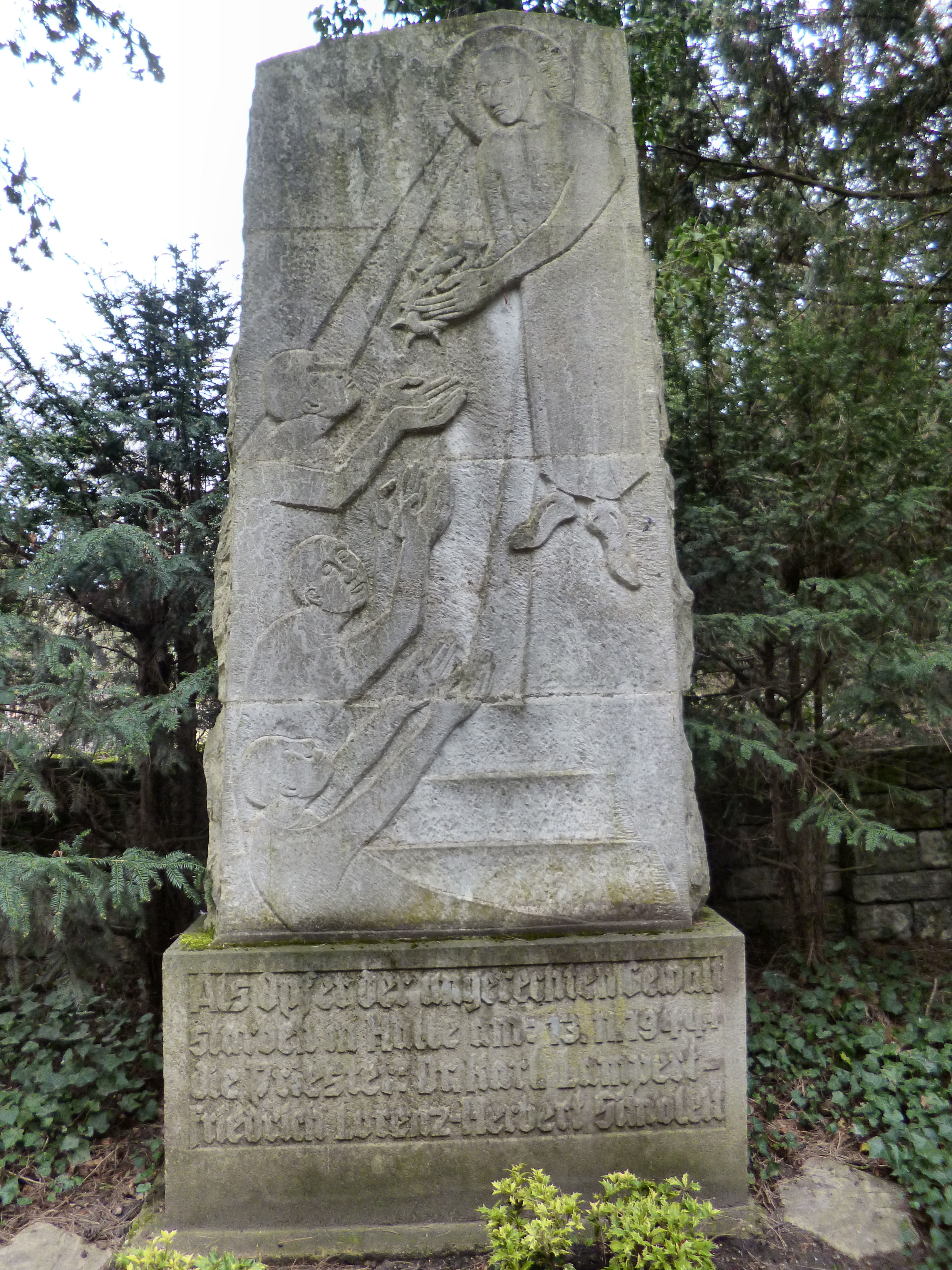 Memorial for the catholic priests Carl Lampert, Friedrich Lorenz and Herbert Simoleit on the cemetery Südfriedhof, Halle (Saale)